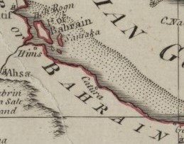 A map, “Arabia According to Its Modern Divisions”, made by Samuel Dunn in 1794 which shows the Arabian Peninsula, the Persian Gulf and Iran.